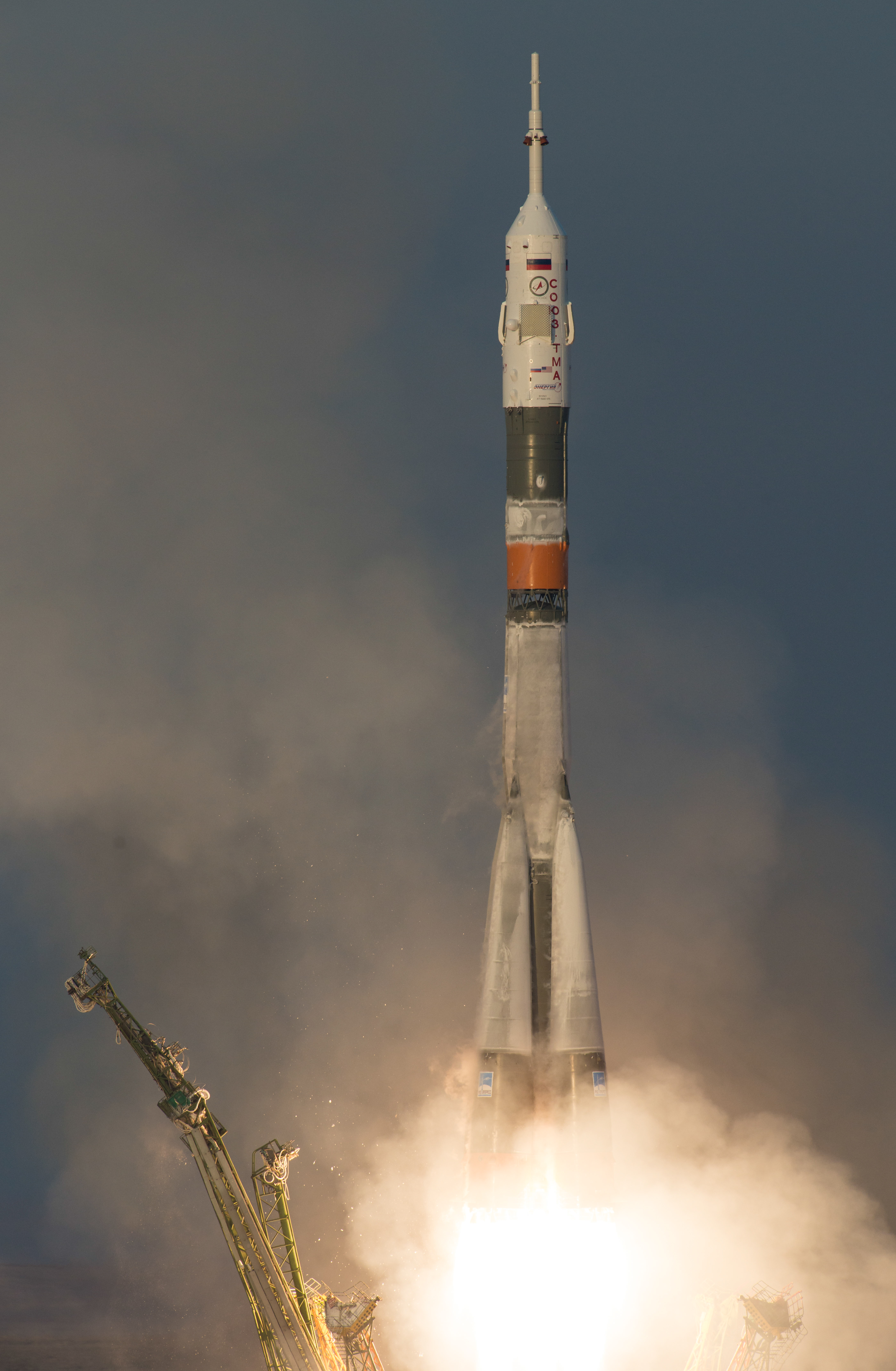 The Soyuz TMA-19M rocket is launched with Expedition 46 Soyuz Commander Yuri Malenchenko of the Russian Federal Space Agency (Roscosmos), Flight Engineer Tim Kopra of NASA, and Flight Engineer Tim Peake of ESA (European Space Agency), Tuesday, Dec. 15, 2015 at the Baikonur Cosmodrome in Kazakhstan. Malenchenko, Kopra, and Peake will spend the next six-months living and working aboard the International Space Station.